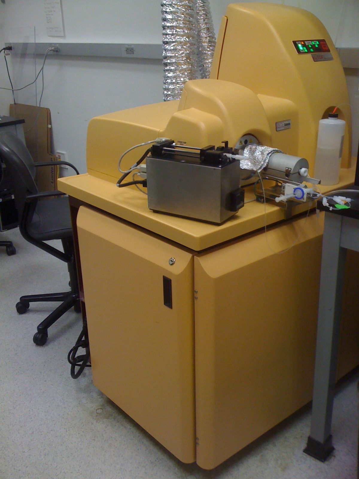 A mass cytometer made by DVS Sciences.